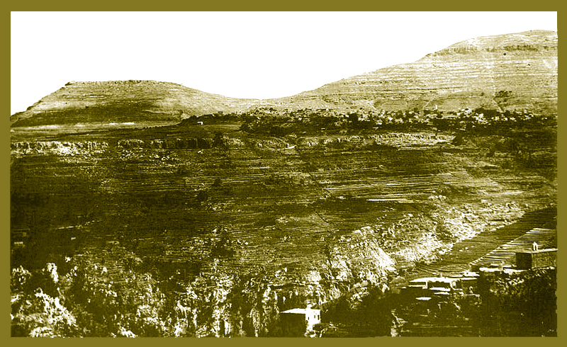 Photo of a Postcard of 1896